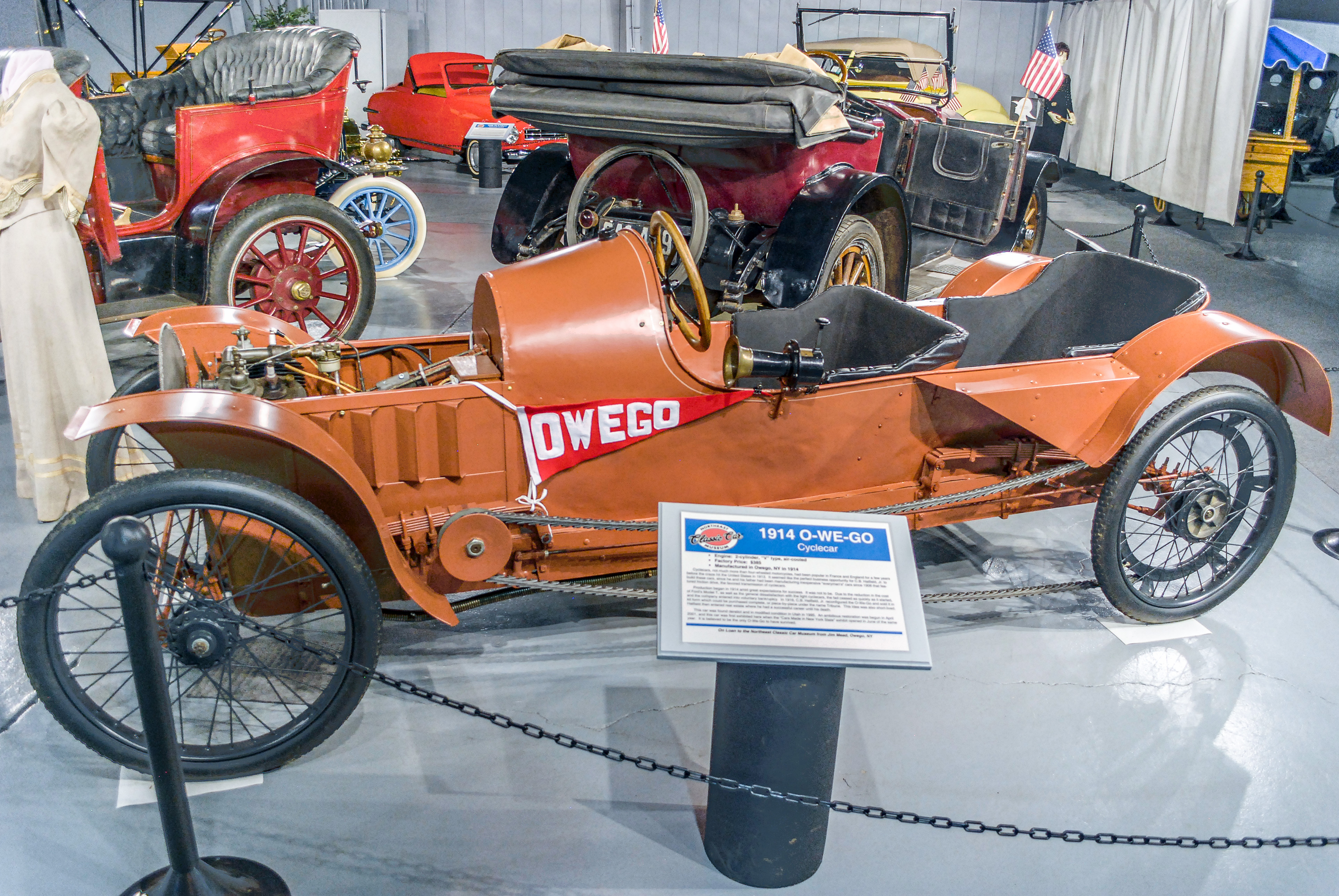 The O-We-Go was an American cyclecar manufactured in 1914. The tandem-seat automobile sold for $385; it was built in Owego, New York.